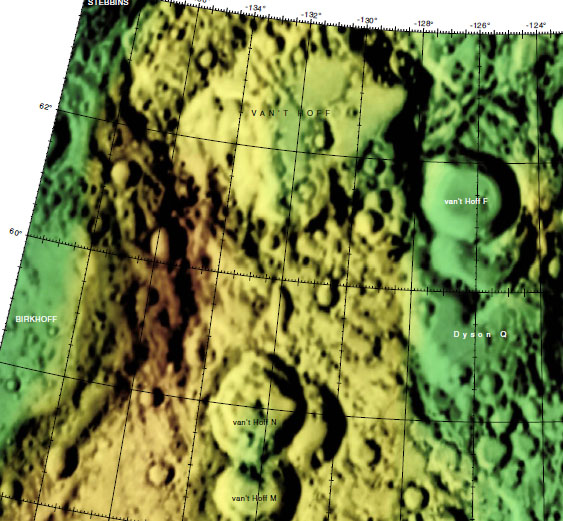 Graphic color-coded LAC No. 20. Excerpt from the USGS Digital Atlas of the Moon.